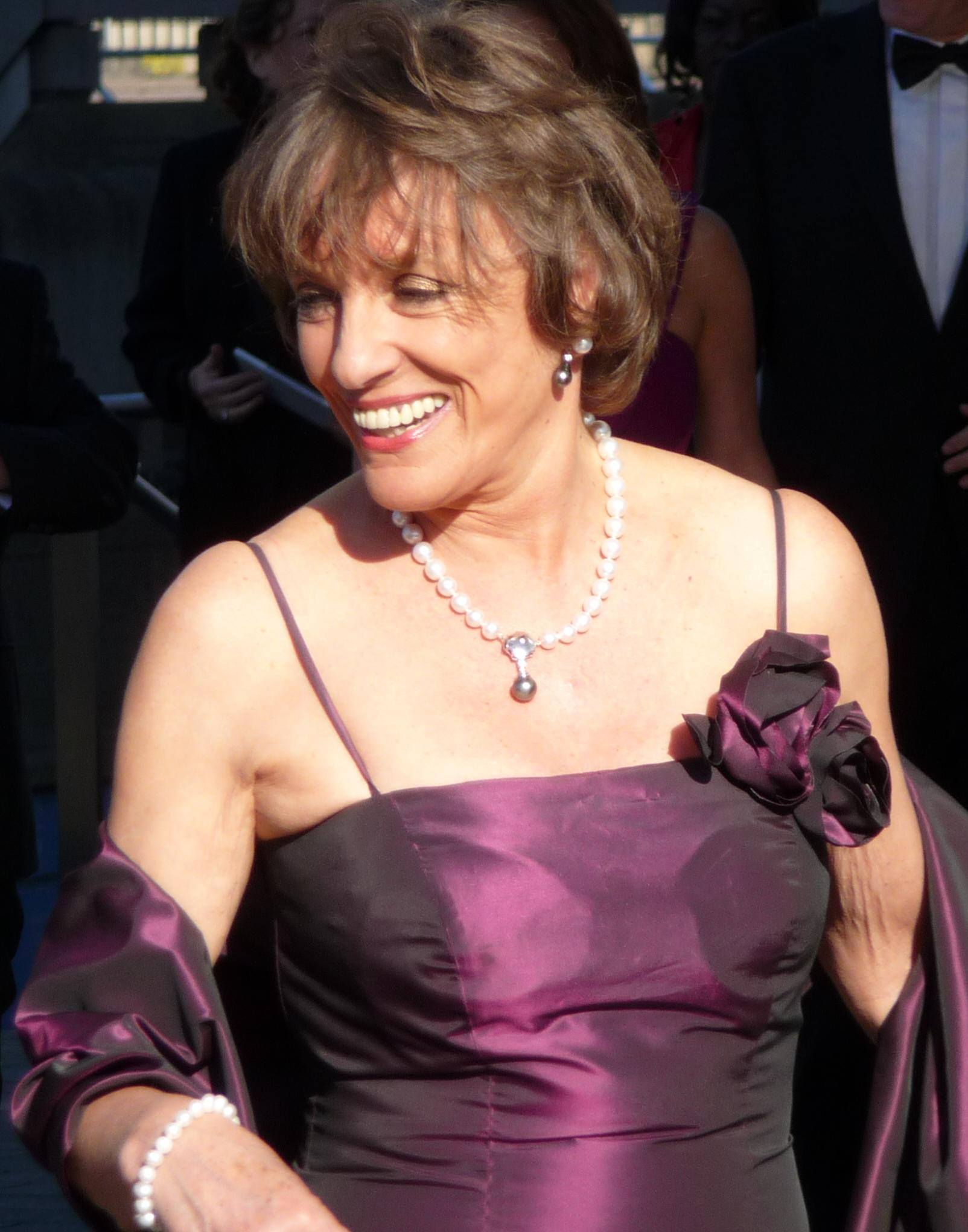 Esther RantzenCropped from original source